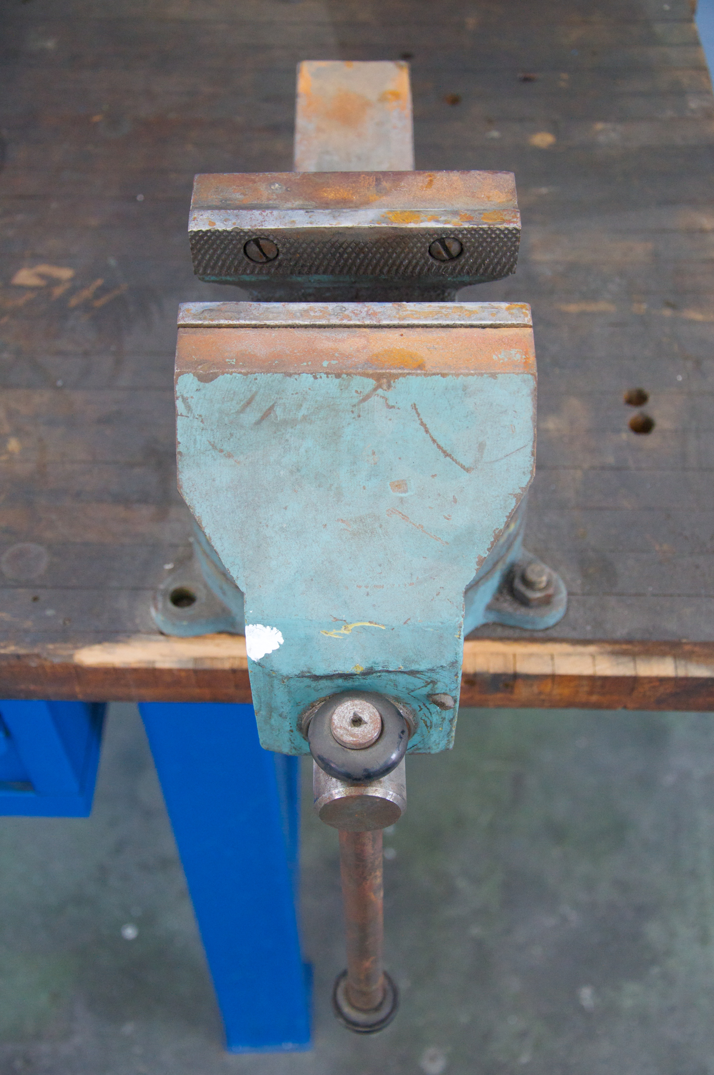 Garage clamps with lever